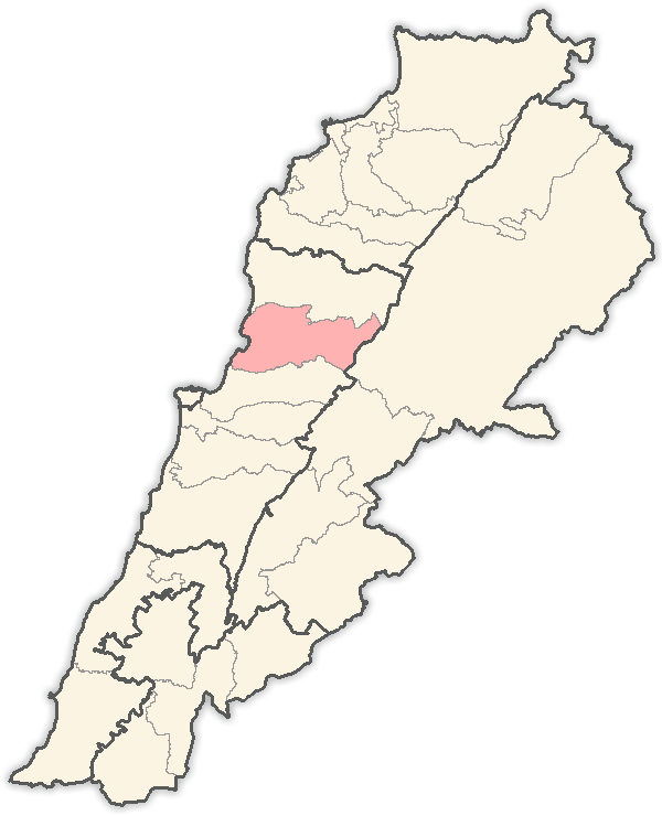 Map of districts in Lebanon, highlighting the Keserwan District